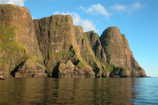 Beinisvørð from the sea-site